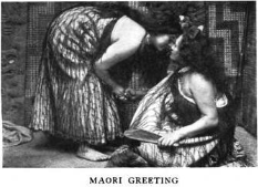 Maori greeting From Frank Coffee's 1920 book "Forty Years On the Pacific"